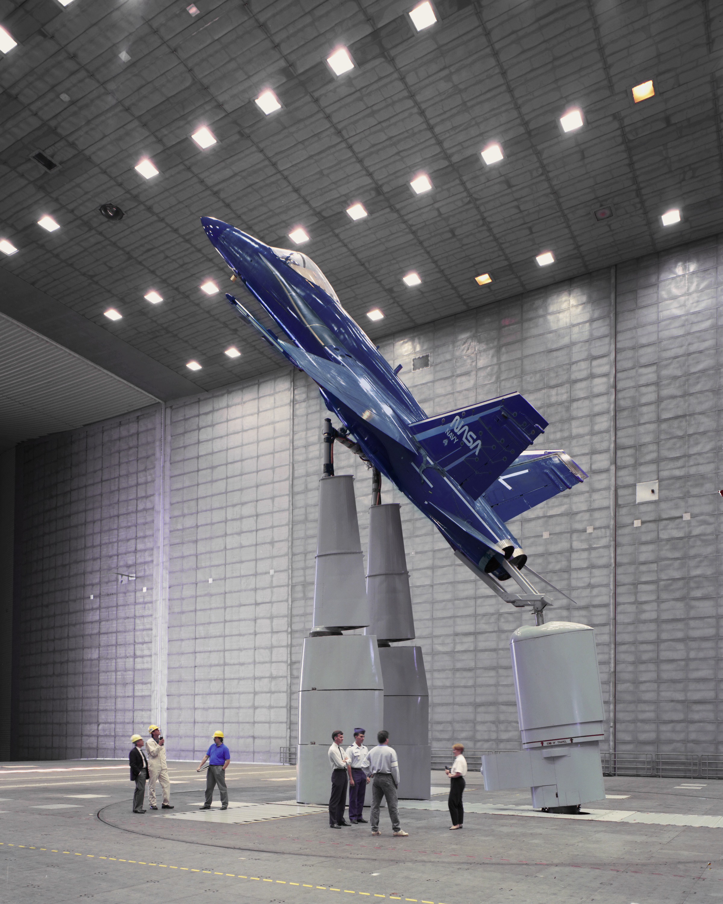 F/A-18 High Alpha fighter testing high angle-of-attack aerodynamics in 80x120ft W.T.